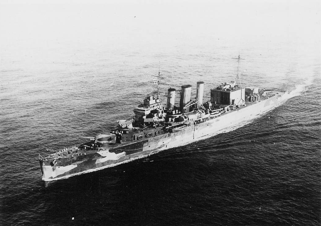 HMS Suffolk (55) was a Kent class cruiser of the Royal Navy.